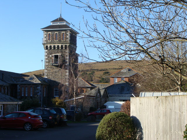 The former Hospital, Moorhaven, Bittaford